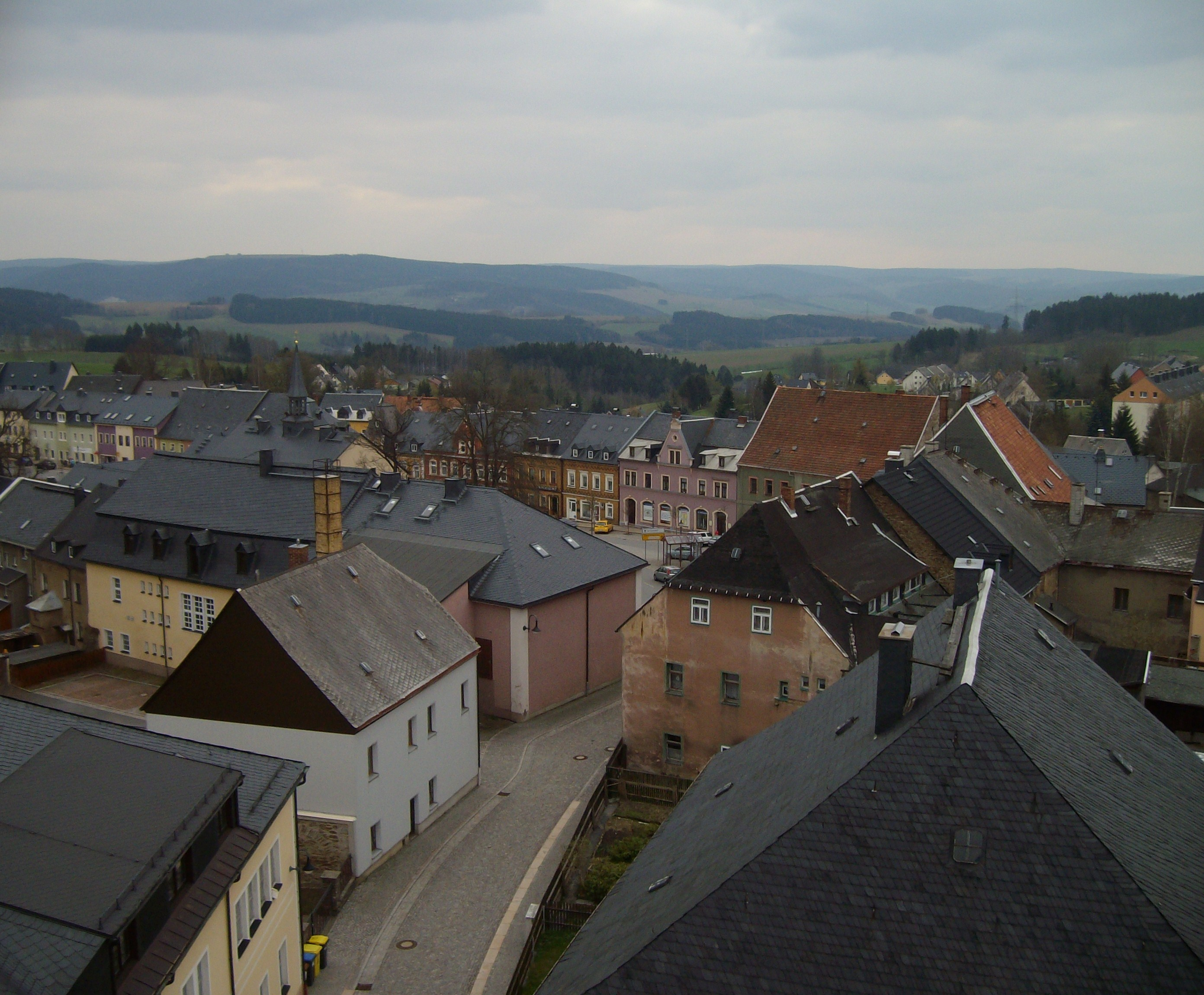 View of the market square Elterlein